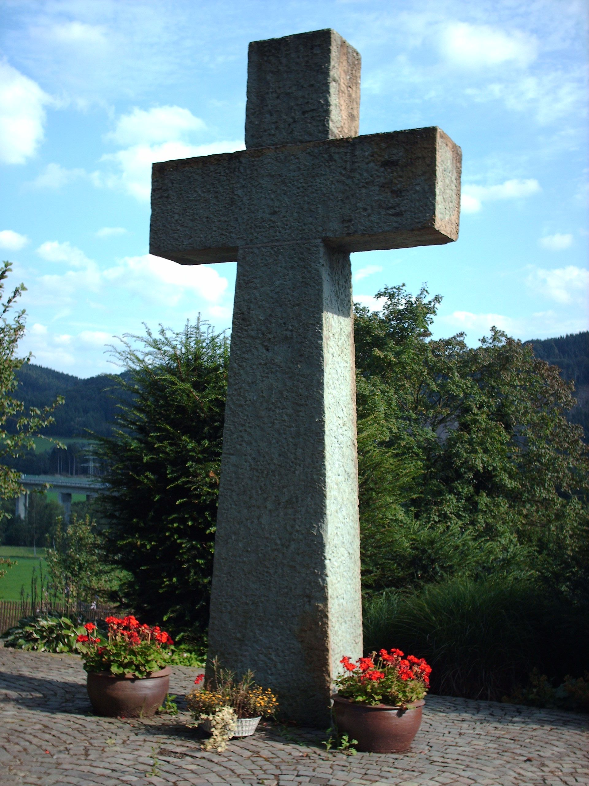 Cross at military cemetery, Meschede, Germany check usage